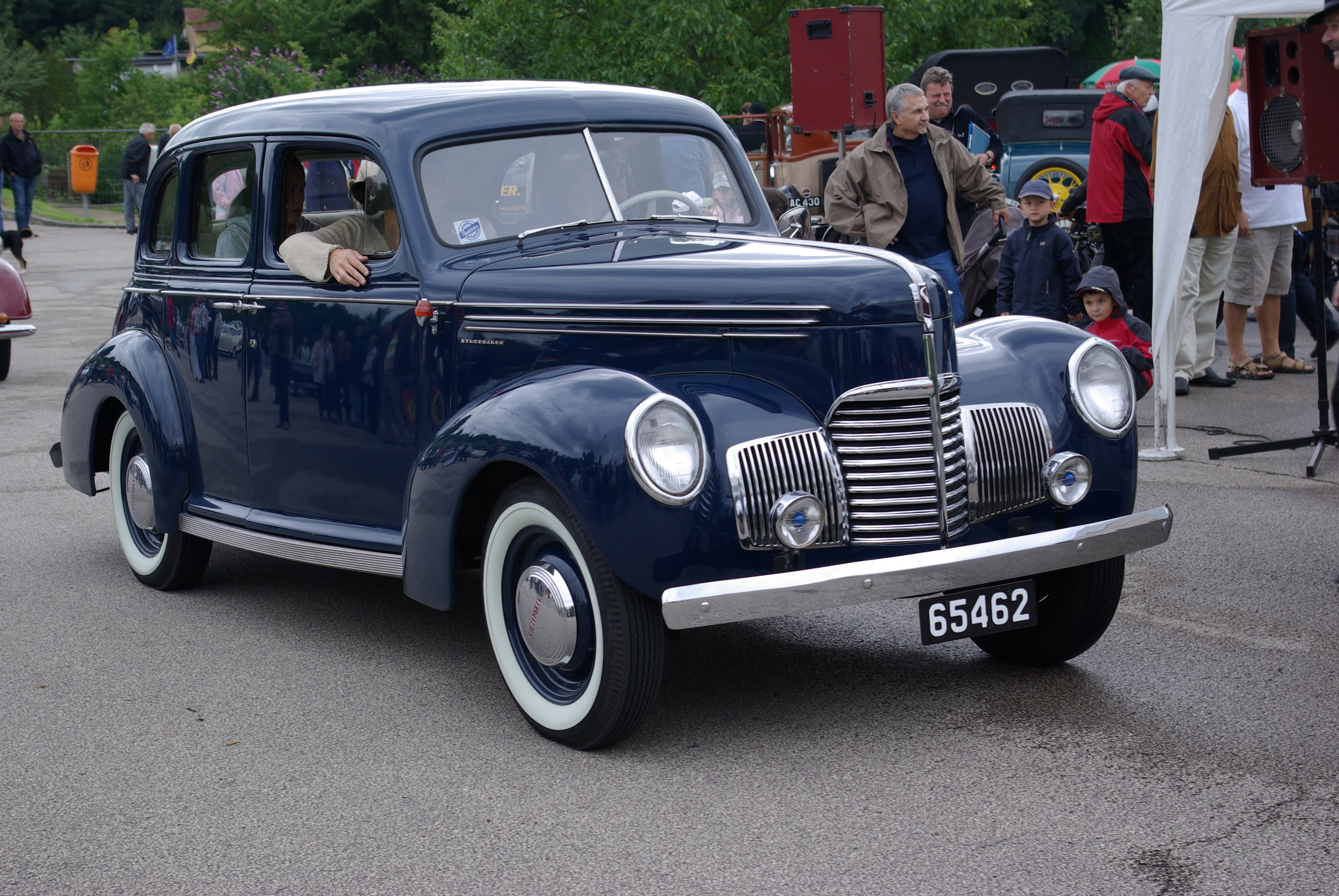 Studebaker Champion first generation, 1939